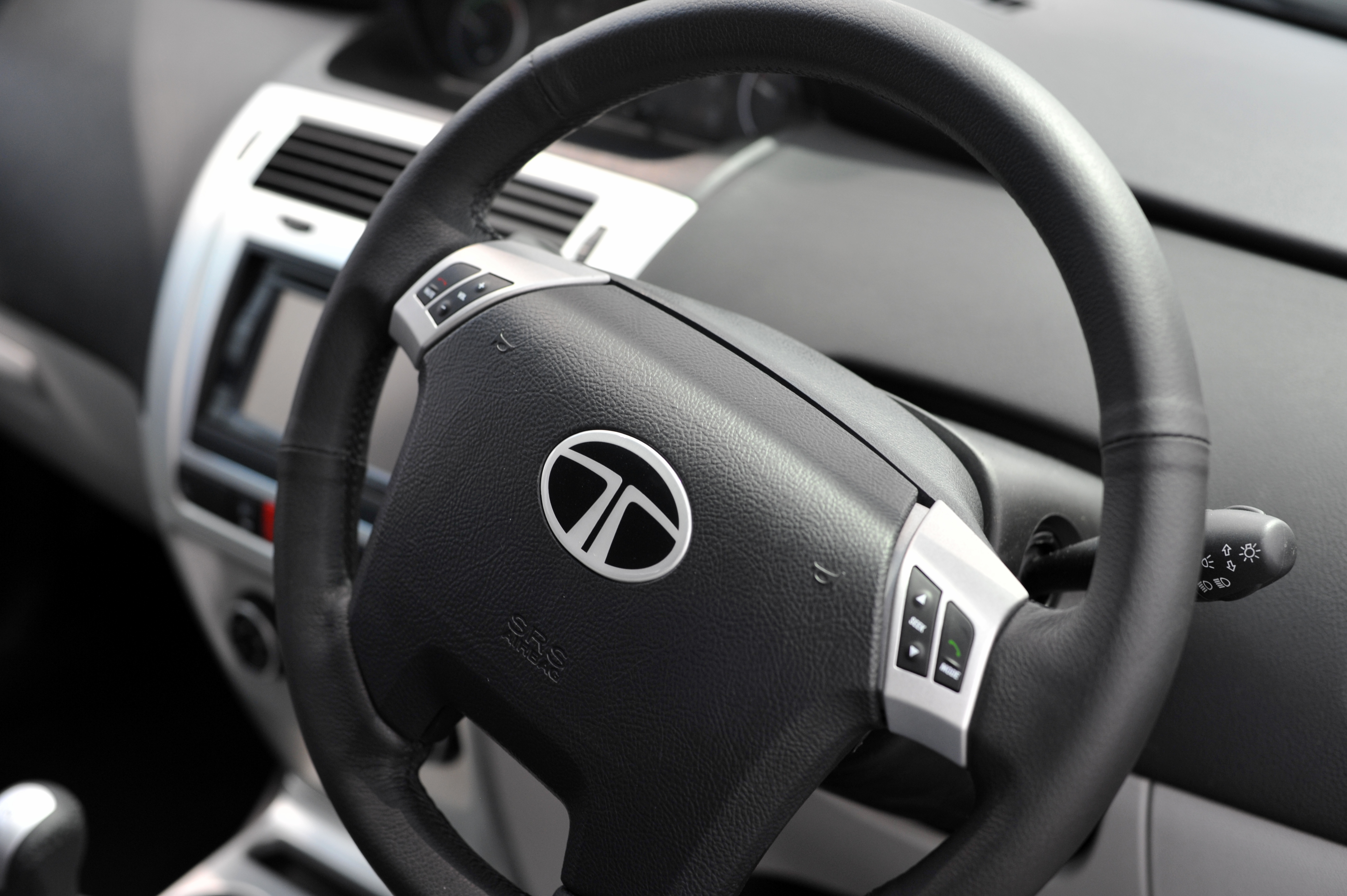 Indica Vista EV Steering wheel with in-call audio / phone controls and integrated GPS unit.